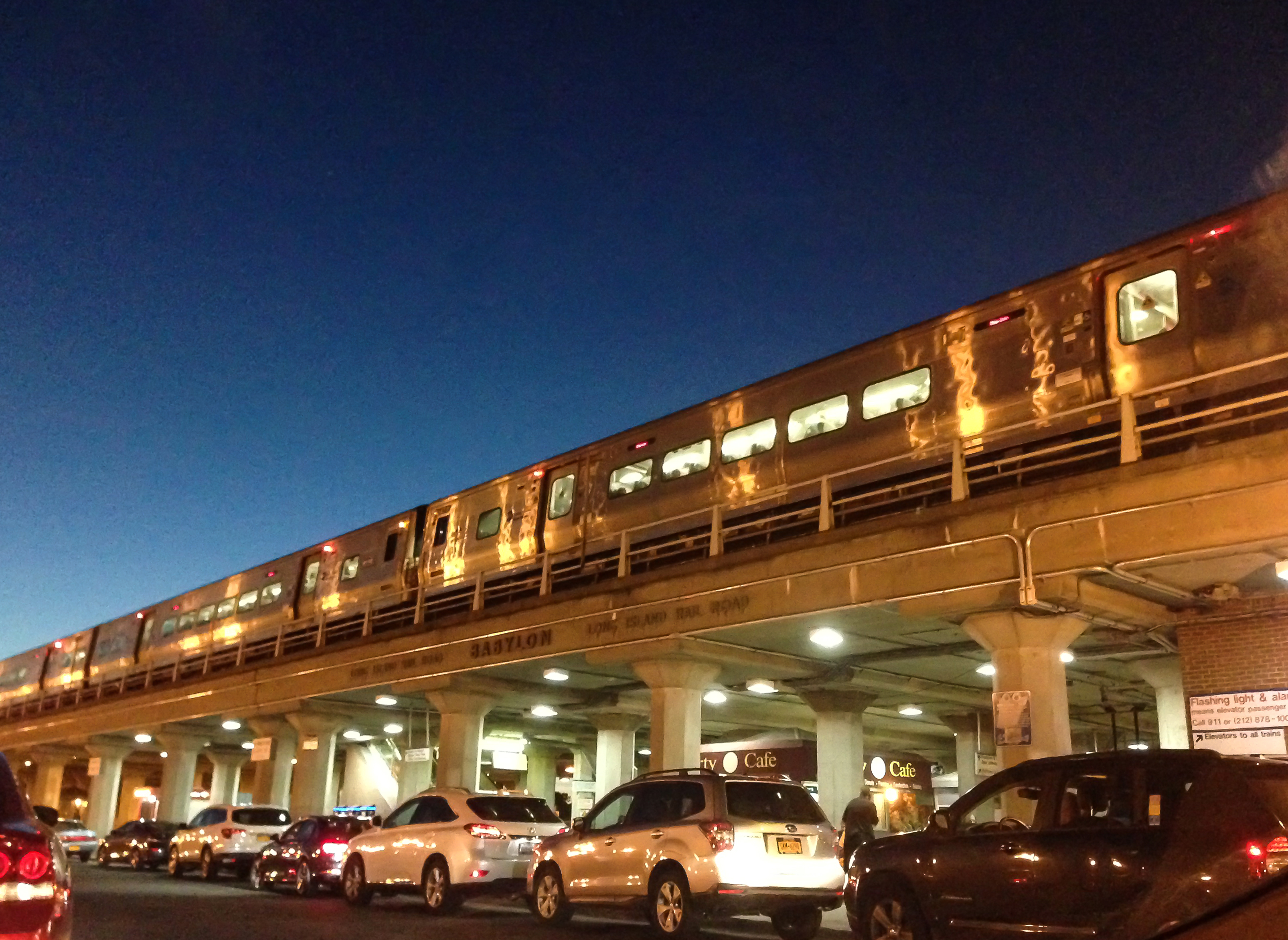 Train arriving at LIRR Babylon station at dusk.